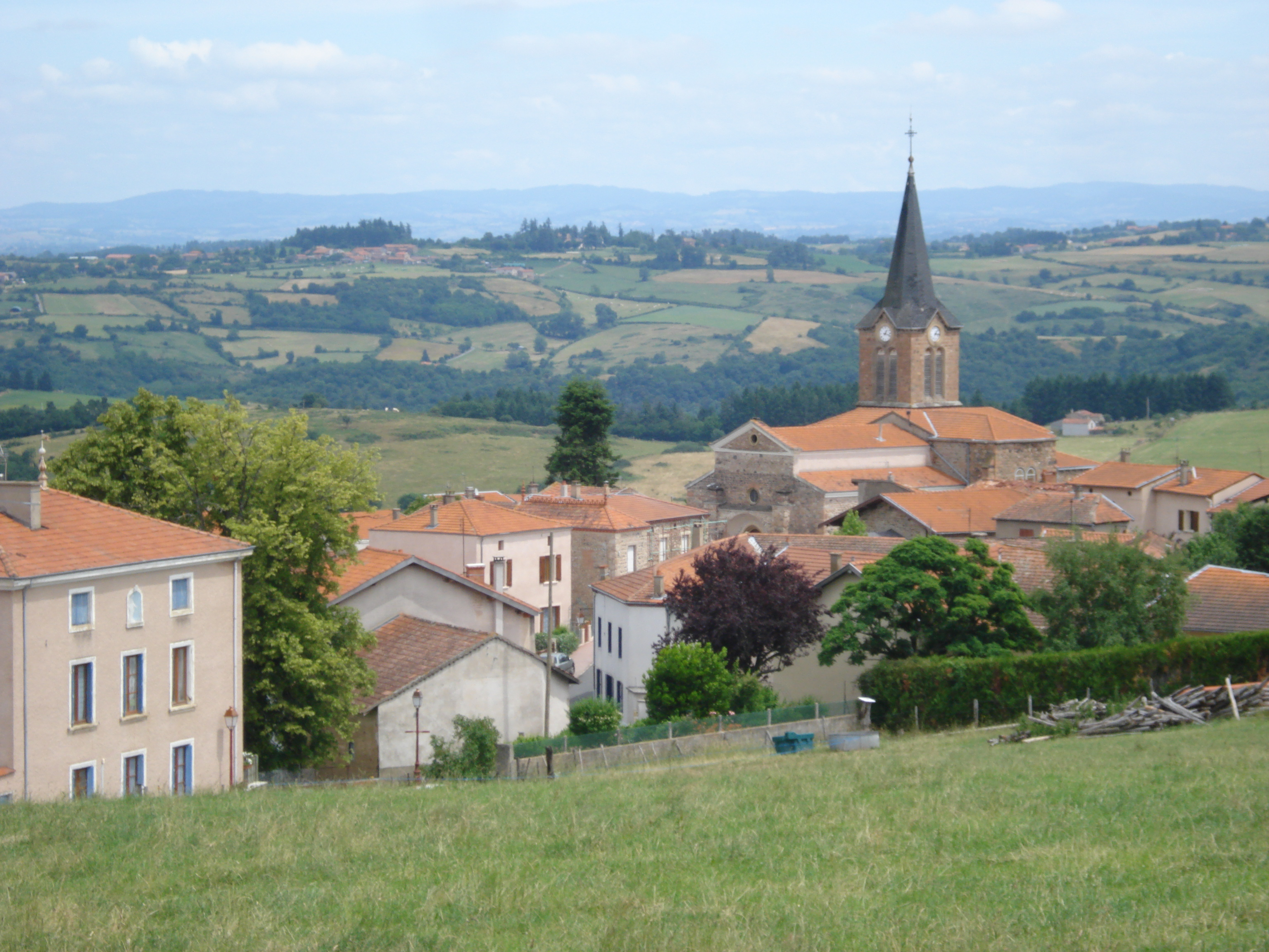 Bully (Loire, Fr), view of church and village